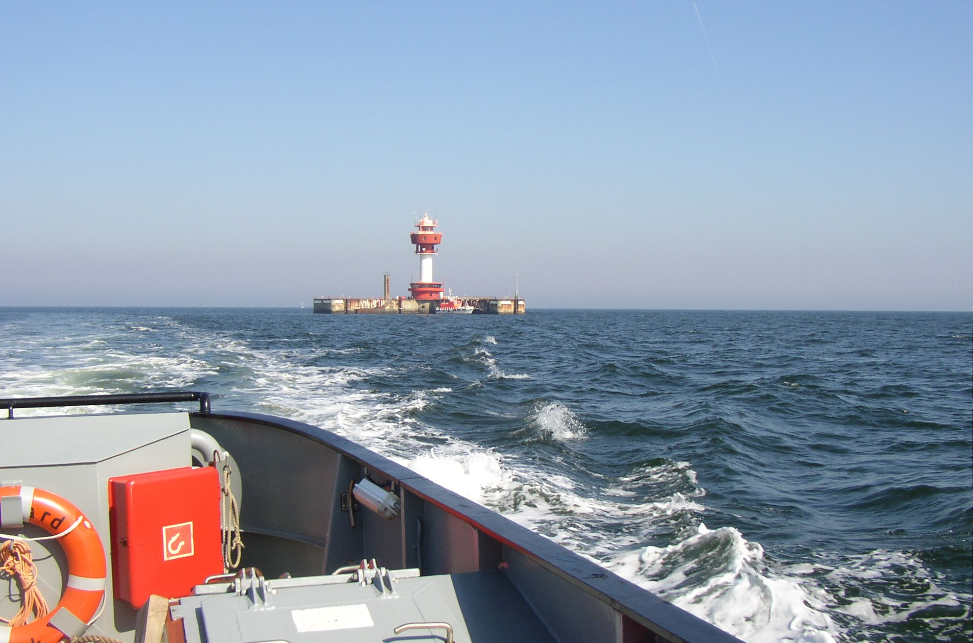 Lighthouse Kiel